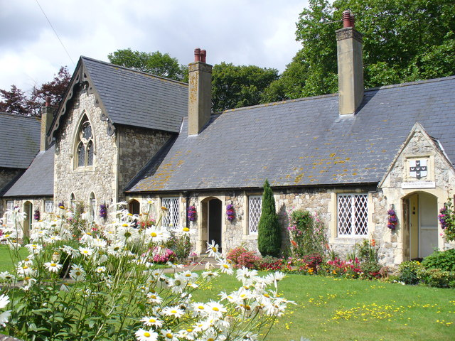 St Thomas' Hospital On Moat Sole, these old almshouses are named after St Thomas Becket. They date back to 1392 when they housed 12 poor folk.